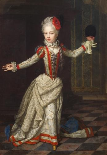 Archduchess Maria Amalie (1701-1756) in dance dress with a mask in his hand